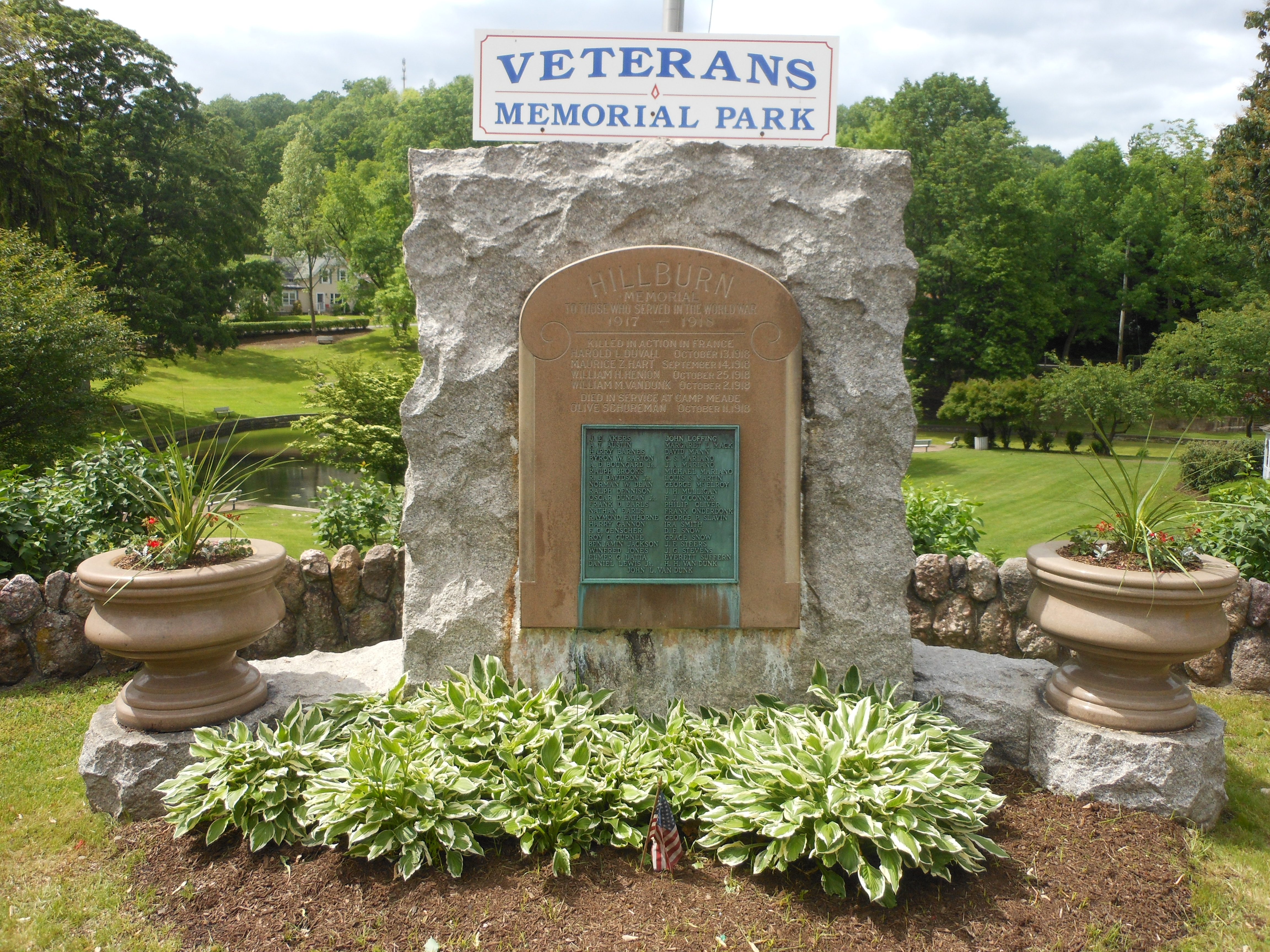 Hillburn, NY Memorial Park